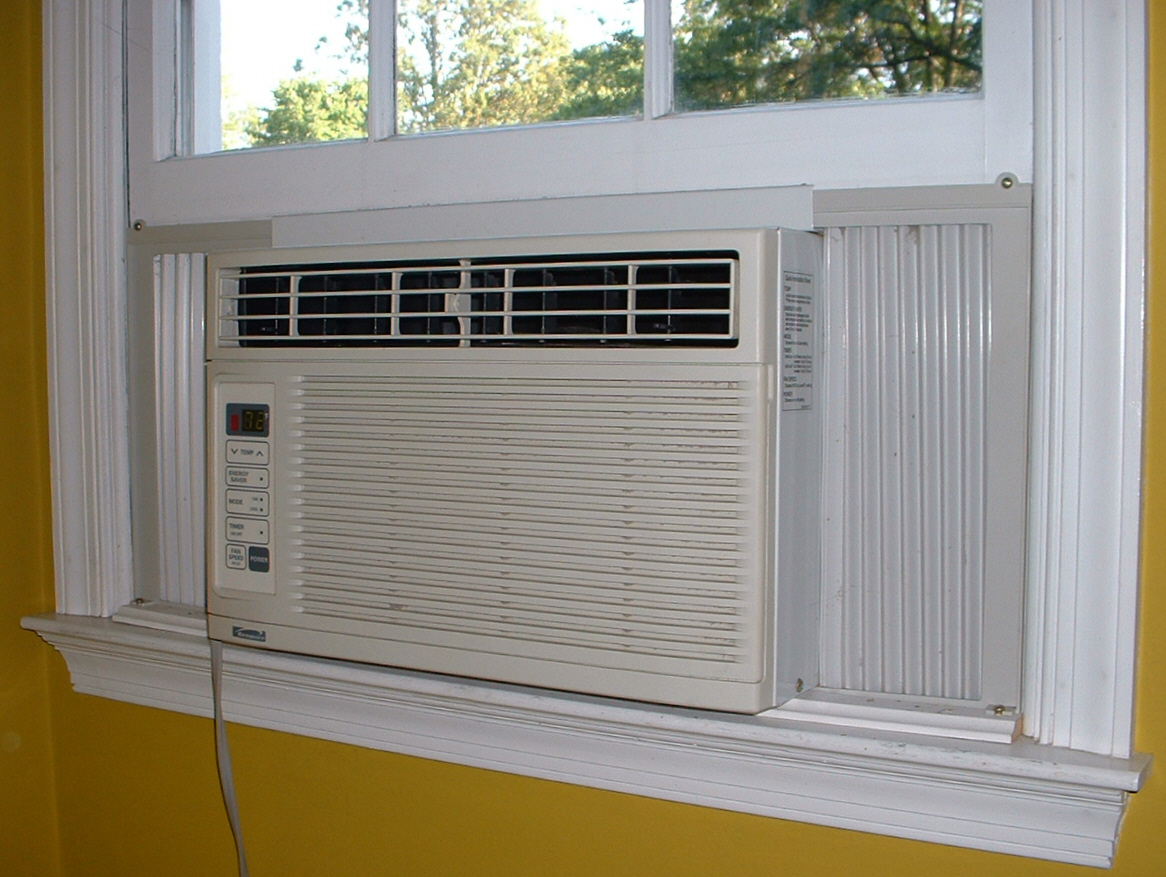 Single Room Air Condition Unit, interior view, USA